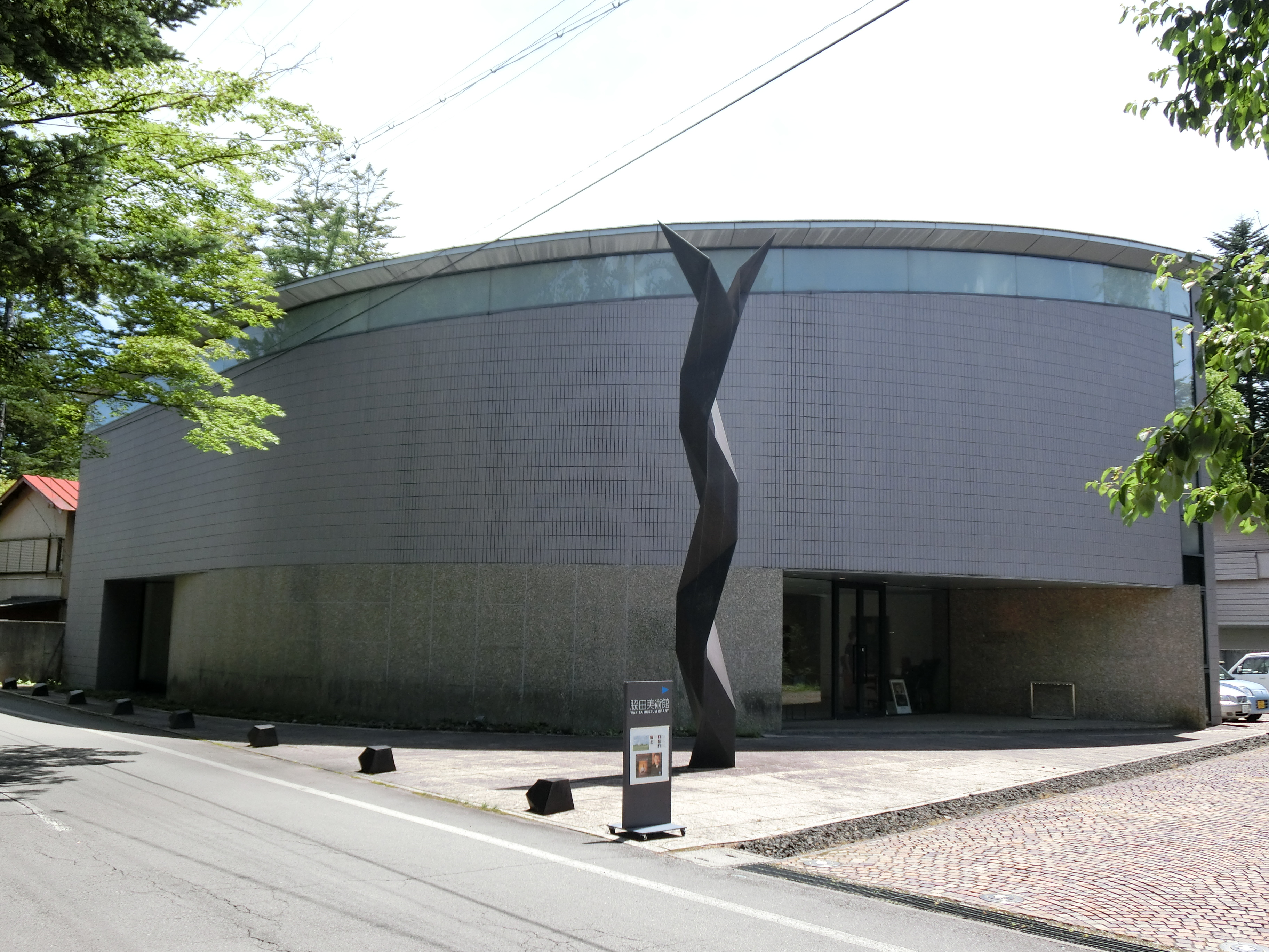 Wakita Museum of Art